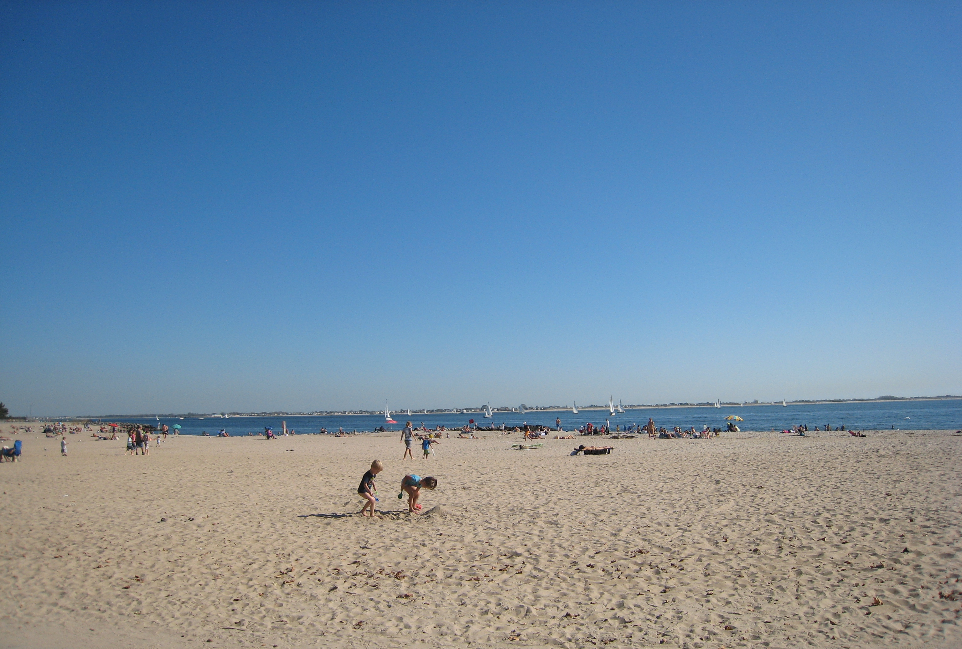 Beach